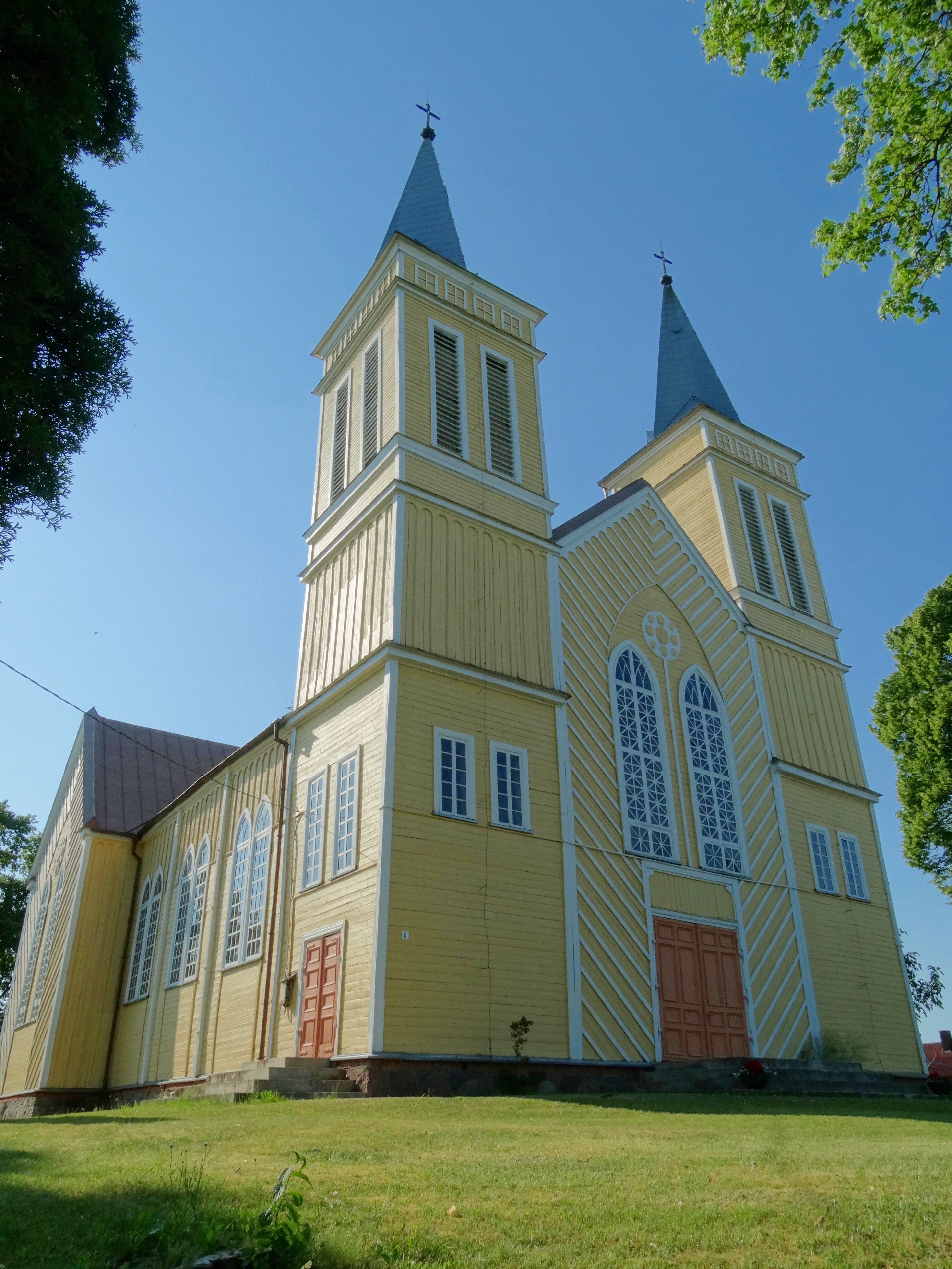 Saint Stanislaus bishop Catholic church in Žarėnai, Telšiai District,, Lithuania